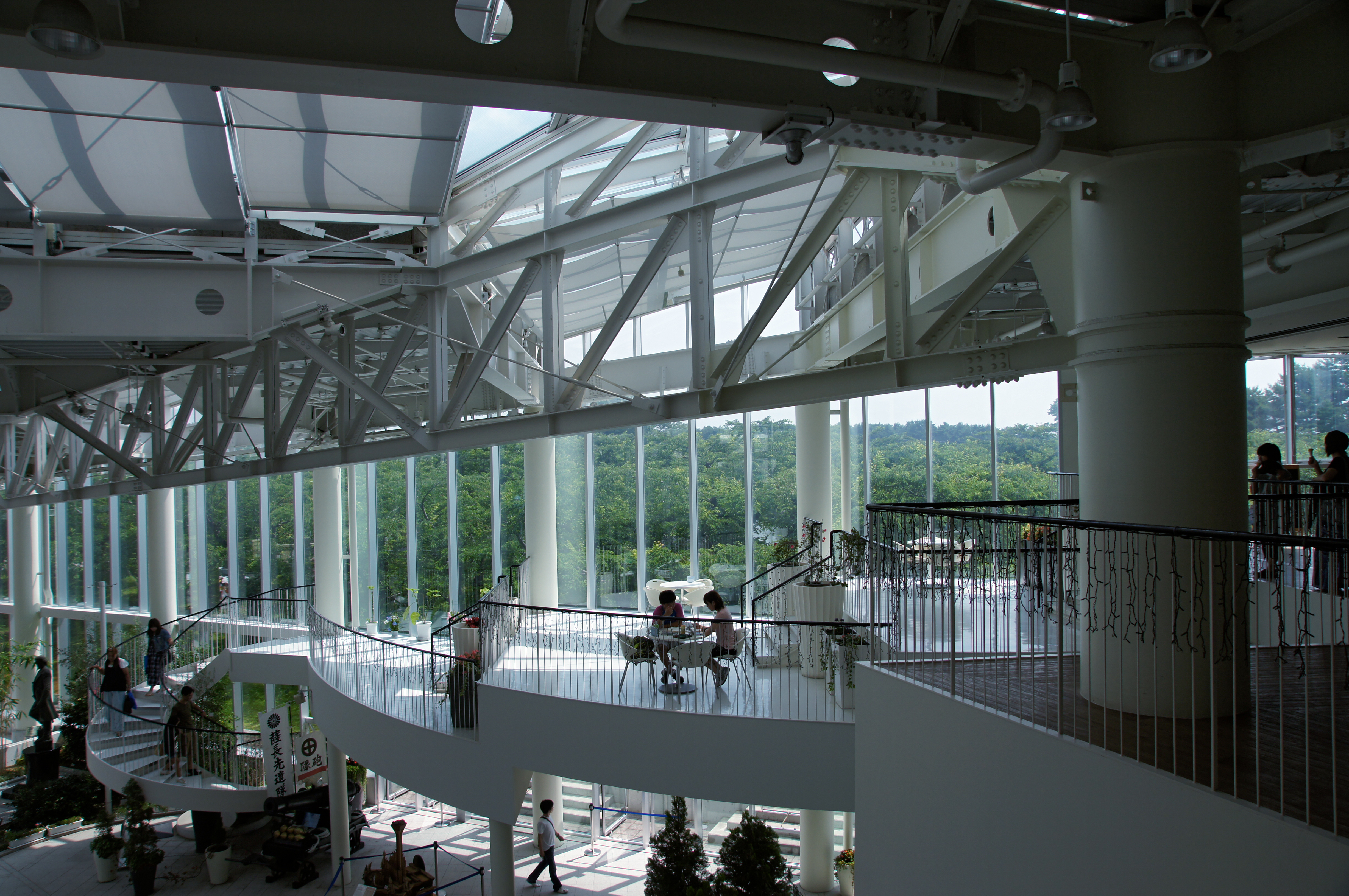 Goryōkaku Tower in Hakodate, Hokkaido prefecture, Japan